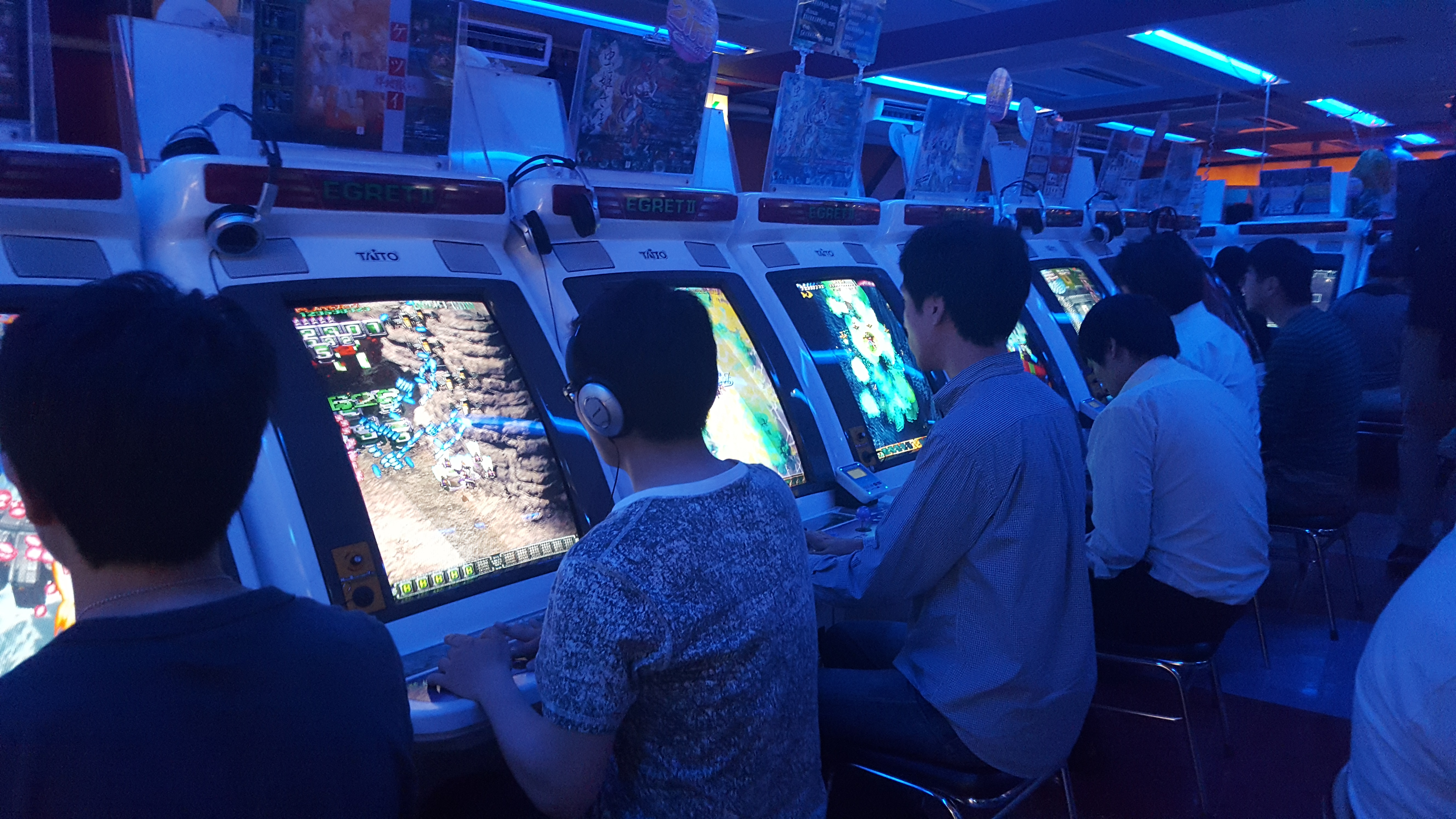 Players playing shoot 'em up video games at Hey arcade in Akihabara, Tokyo, Japan. 2017. This area of the arcade only had shooter machines, and all the players were attempting 1CCs (One credit clears).